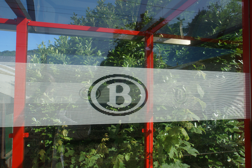 NMBS/SNCB (Belgium): Shelter with NMBS logo in Flémalle